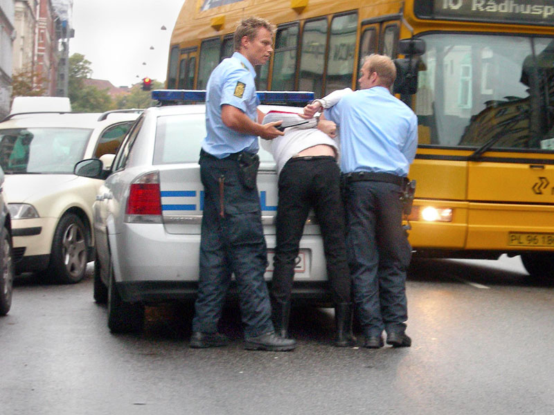 Arrest by Danish police in Copenhagen.